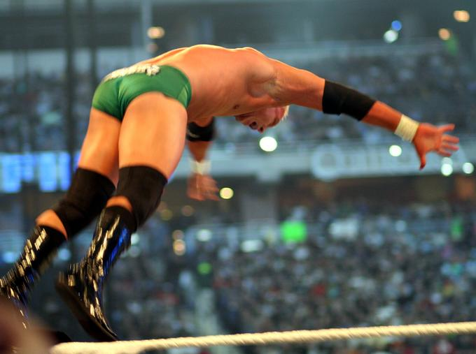 Mr. Kennedy hitting that one move